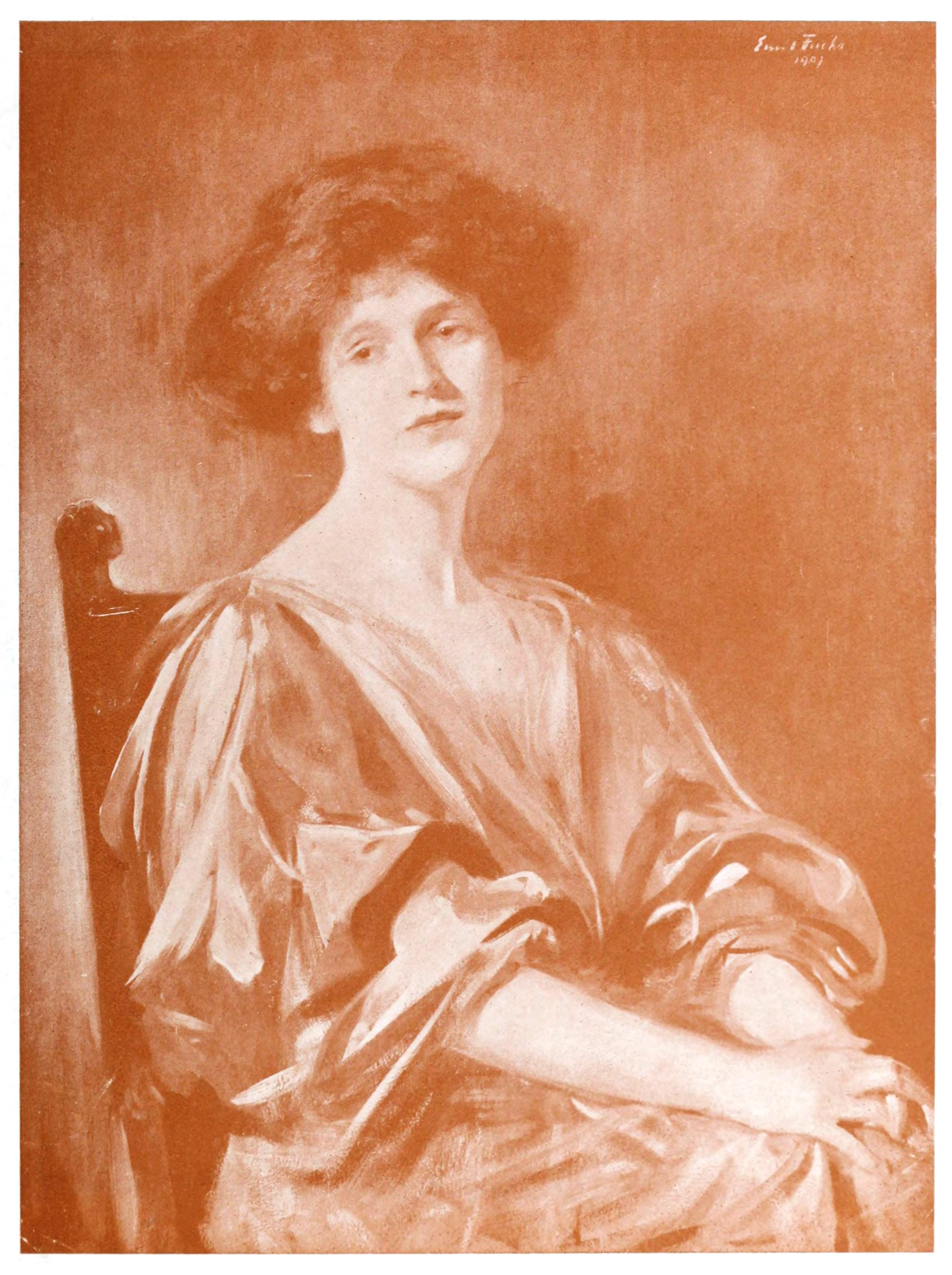 Monochrome reproduction of a portrait of Mrs. Phil Benkard by Emil Fuchs. Mrs Phil Benkard aka Julia Lynch Olin aka Julia Lynch Chanler, primarily known as Julie Chanler (1882-1961)